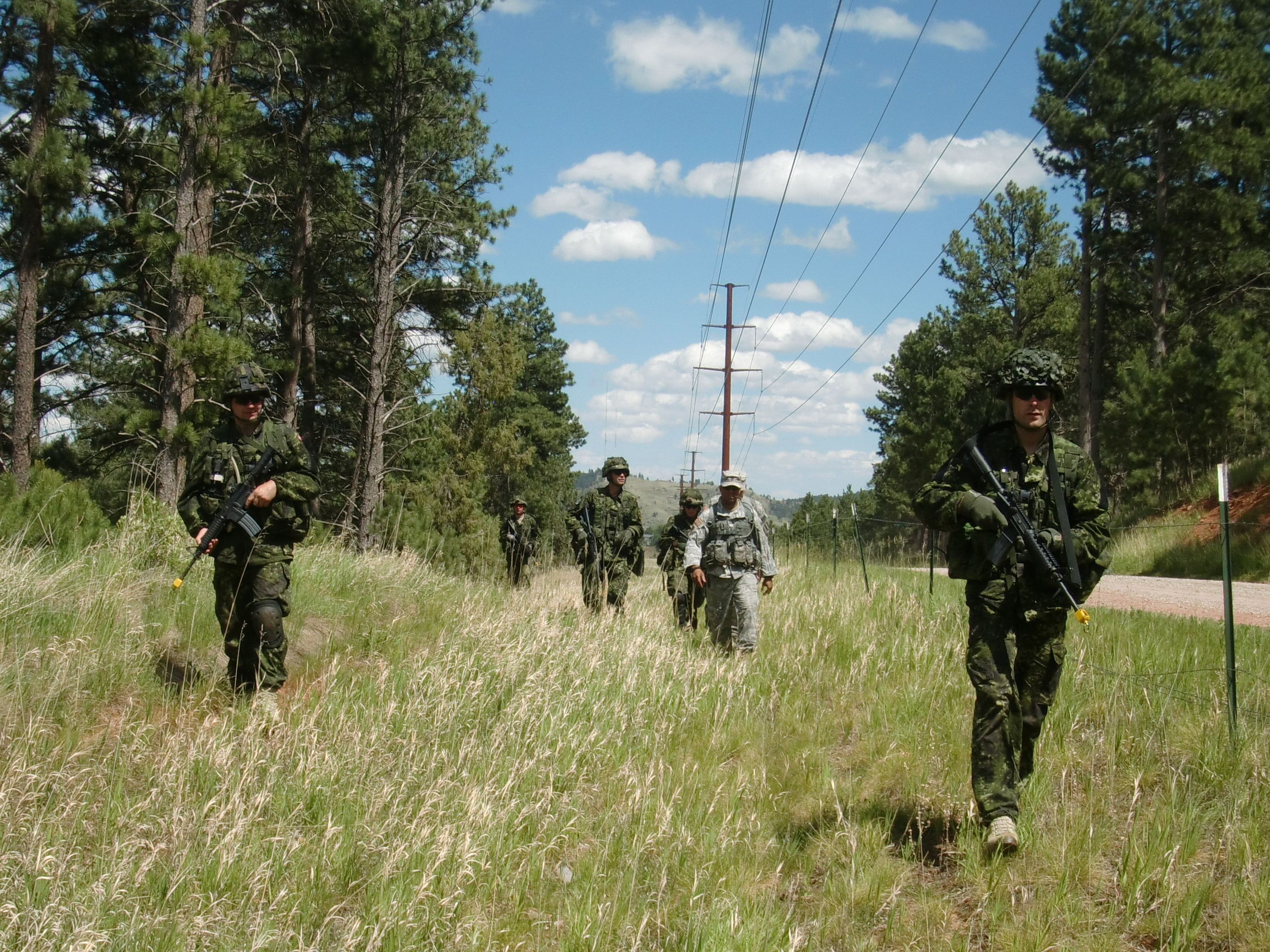 Sgt. 1st Class Tracy Flores, 382nd Military Police Battalion, and Danish Guard soldiers survey West Camp Rapid for gun emplacements June 10, 2012, during the Golden Coyote exercise.